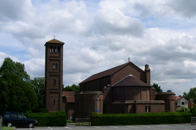 Roman Catholic church of the Sacred Heart and St Catherine of Alexandria, Droitwich Spa, Worcestershire, seen from the northwest